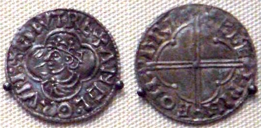 Coins of Cnut_1016_1035_a